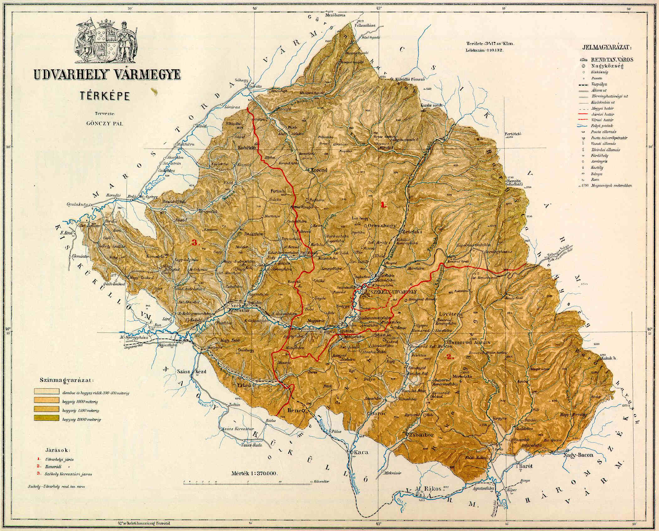 County of Udvarhely in the pre-Trianon Kingdom of Hungary. Komitat Udvarhely w Królestwie Węgier przed traktatem w Trianon.